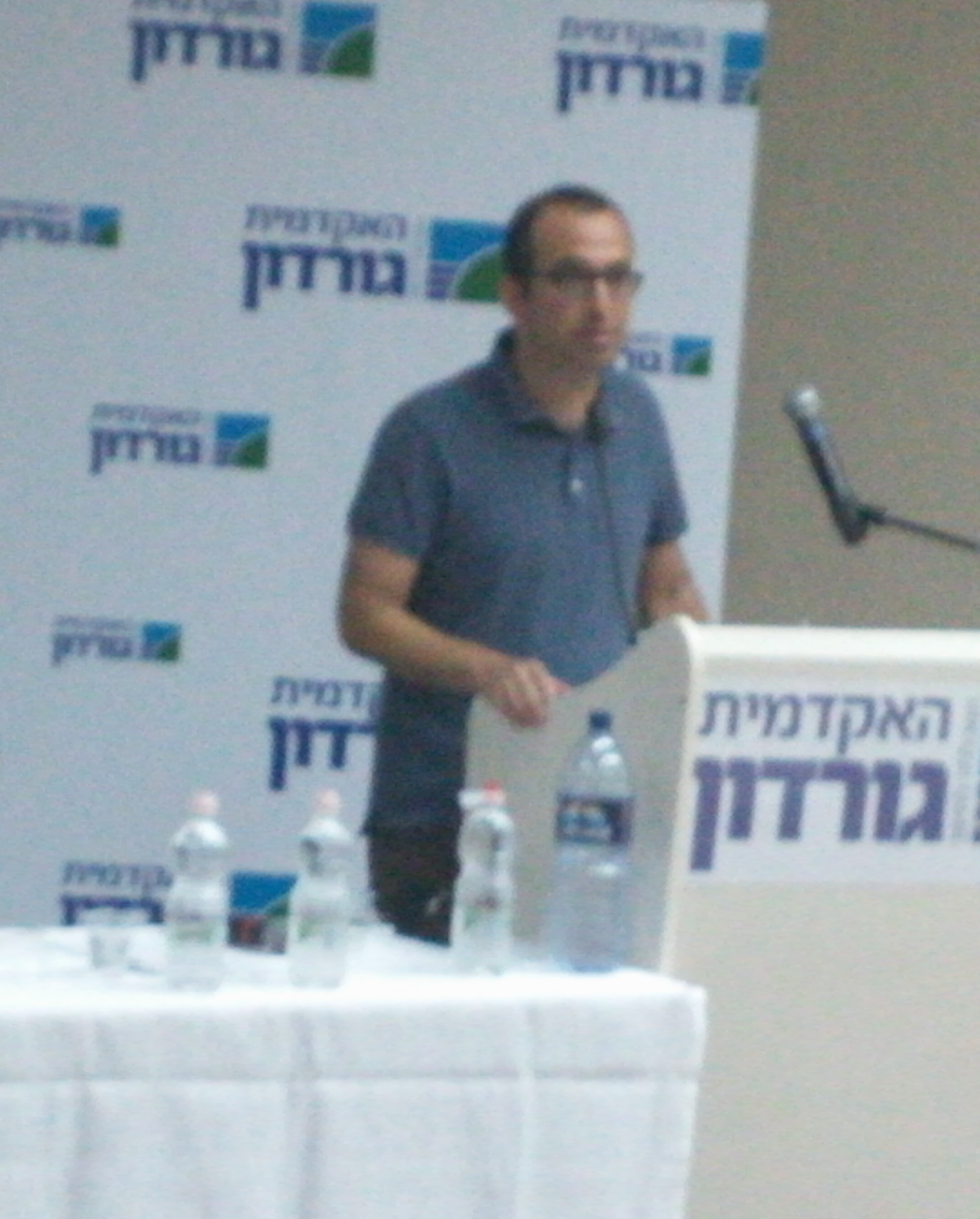 Yishai Sarid, an Israeli author